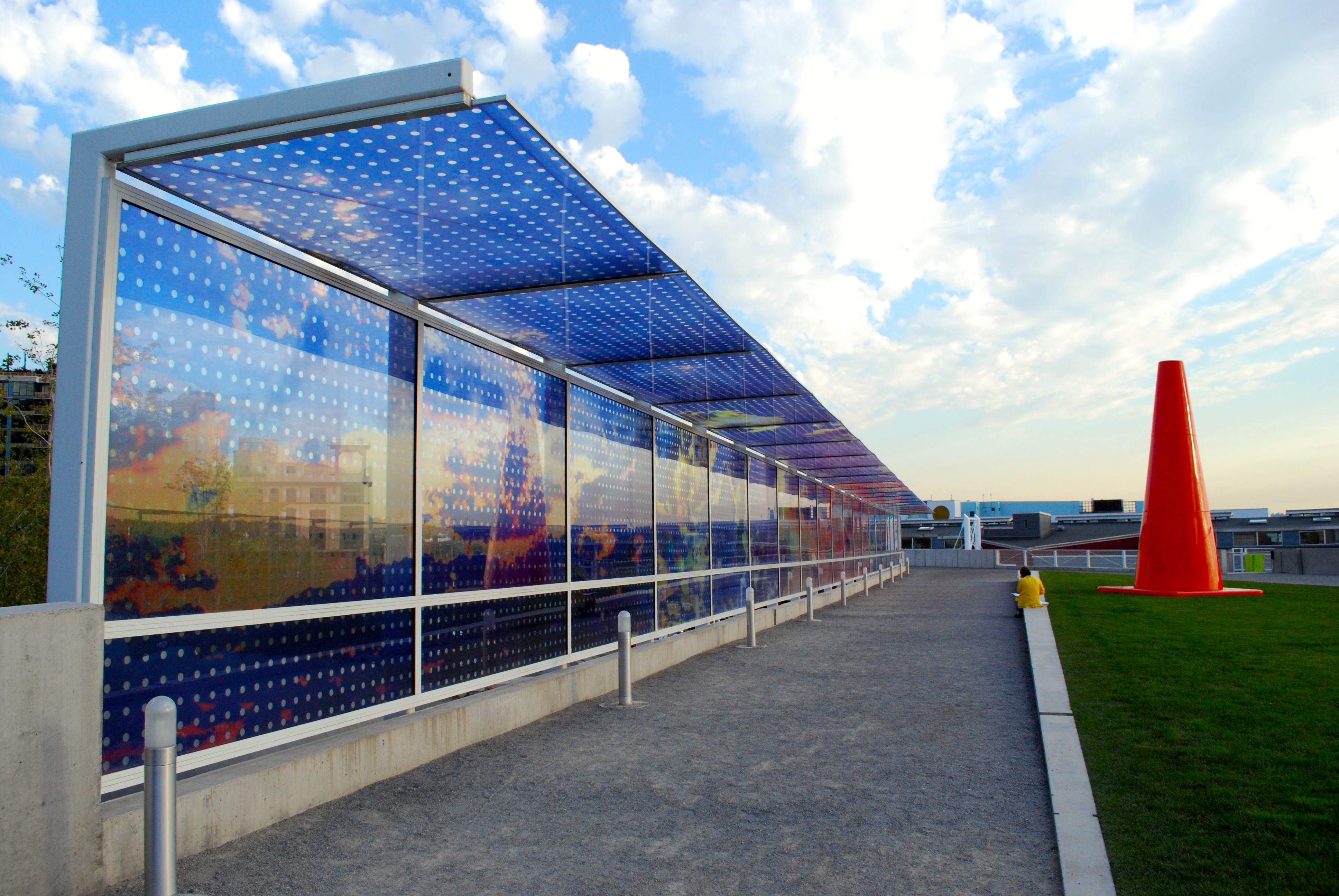 seattle cloud cover 09.2008